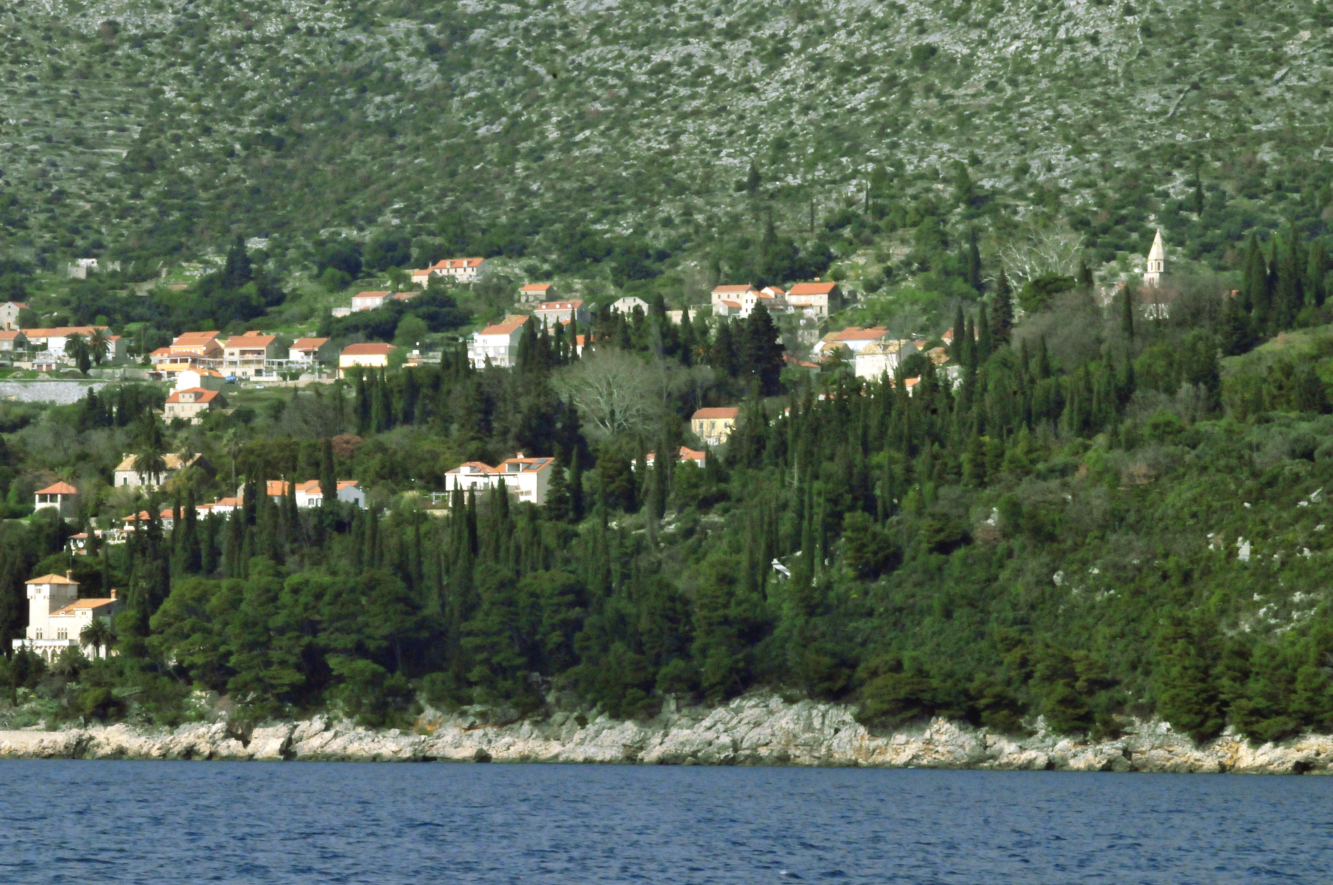 Buildings byside the coast with a lot of cypresses. Trsteno, Dubrovnik-Neretva, Dalmatia, Croatia